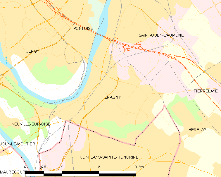 Map of French municipality Éragny